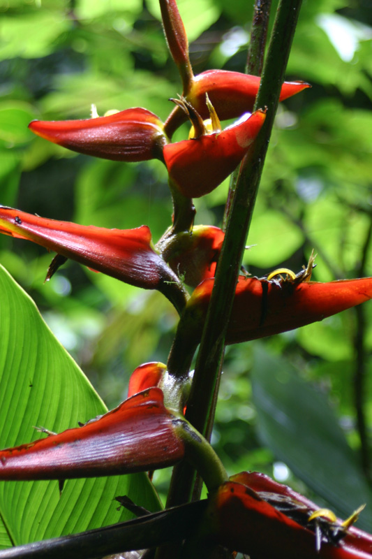 Heliconia tortuosa inflorescence in Monteverde, Costa Rica. Author: Cody Hinchlif, 2004.